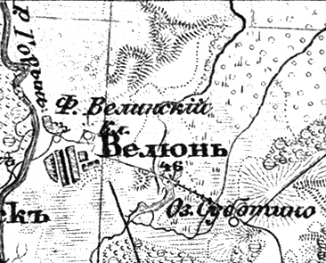 Veliun on the map "Военно-топографическая карта Российской Империи" (known as "Schubert's map"), XX 5, 1866-1887 (issued in 1913).